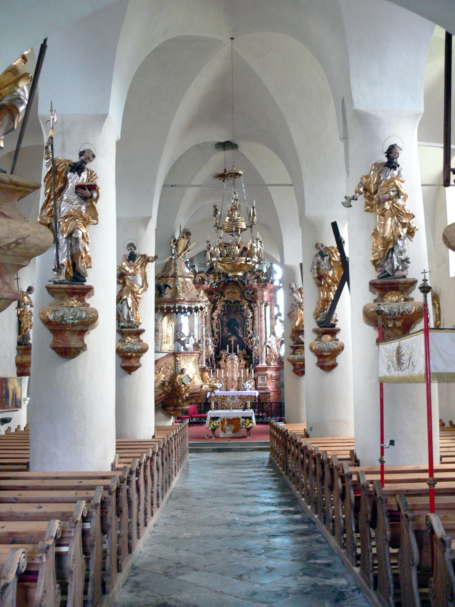 St.Leonhard in Metnitz. Interior.